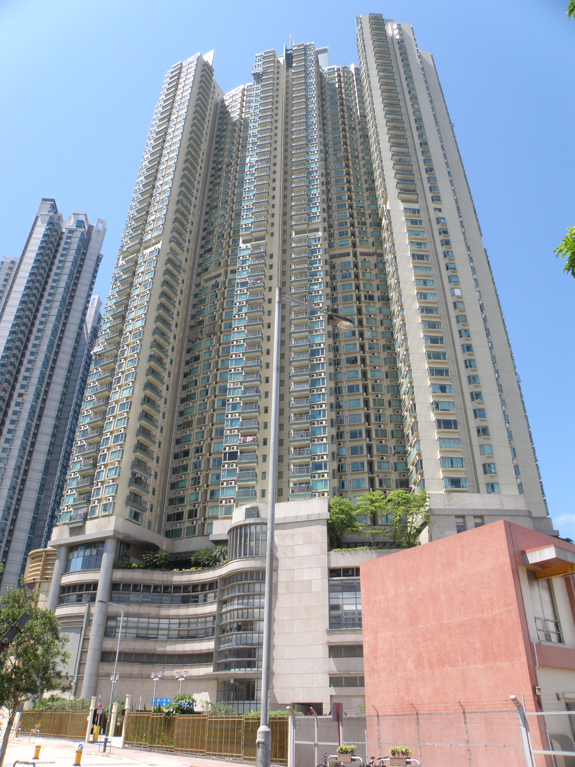 Hampton Place in Tai Kok Tsui, Hong Kong.